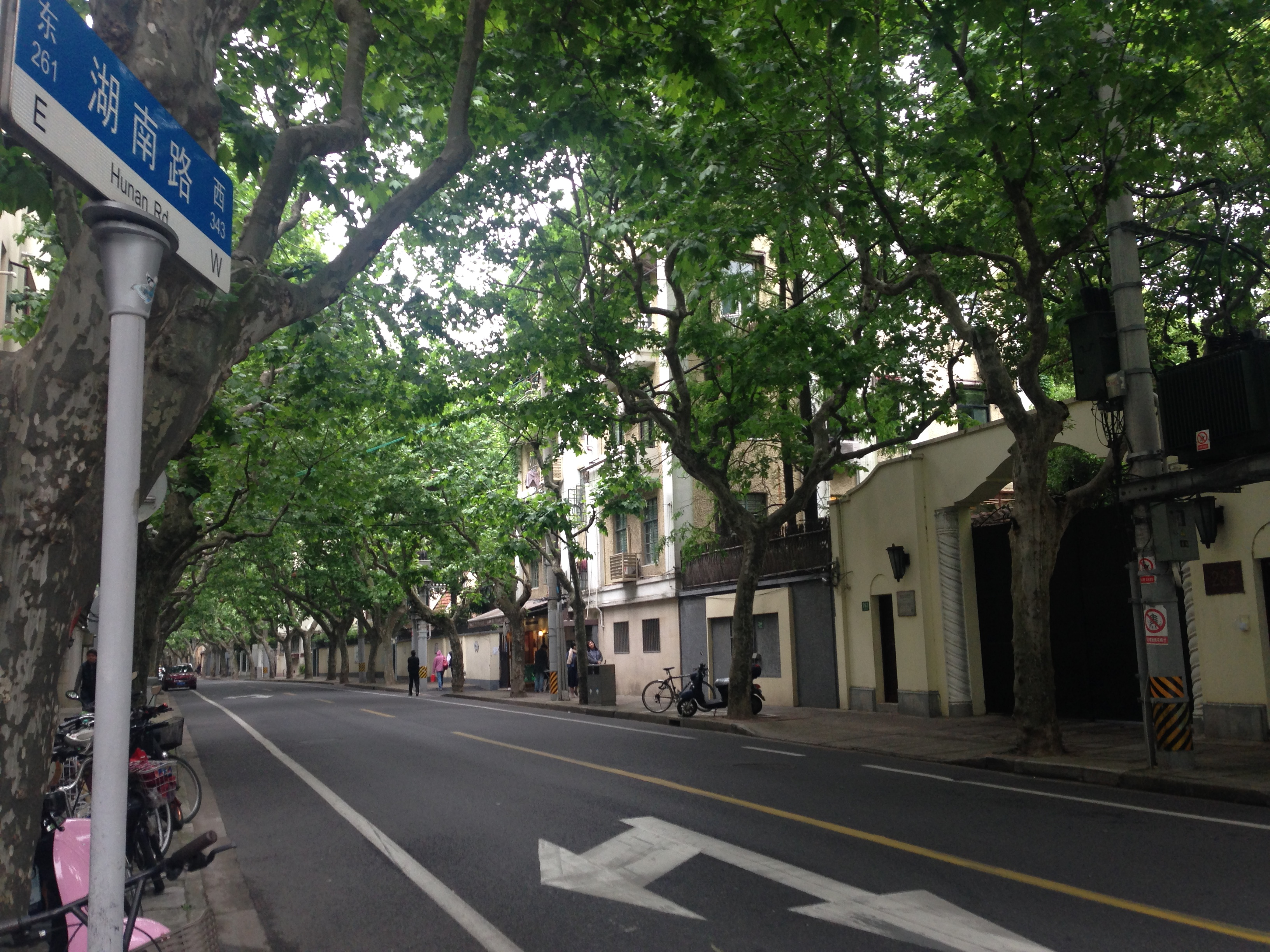 West section of Hunan Road (near Wukang Road), Shanghai